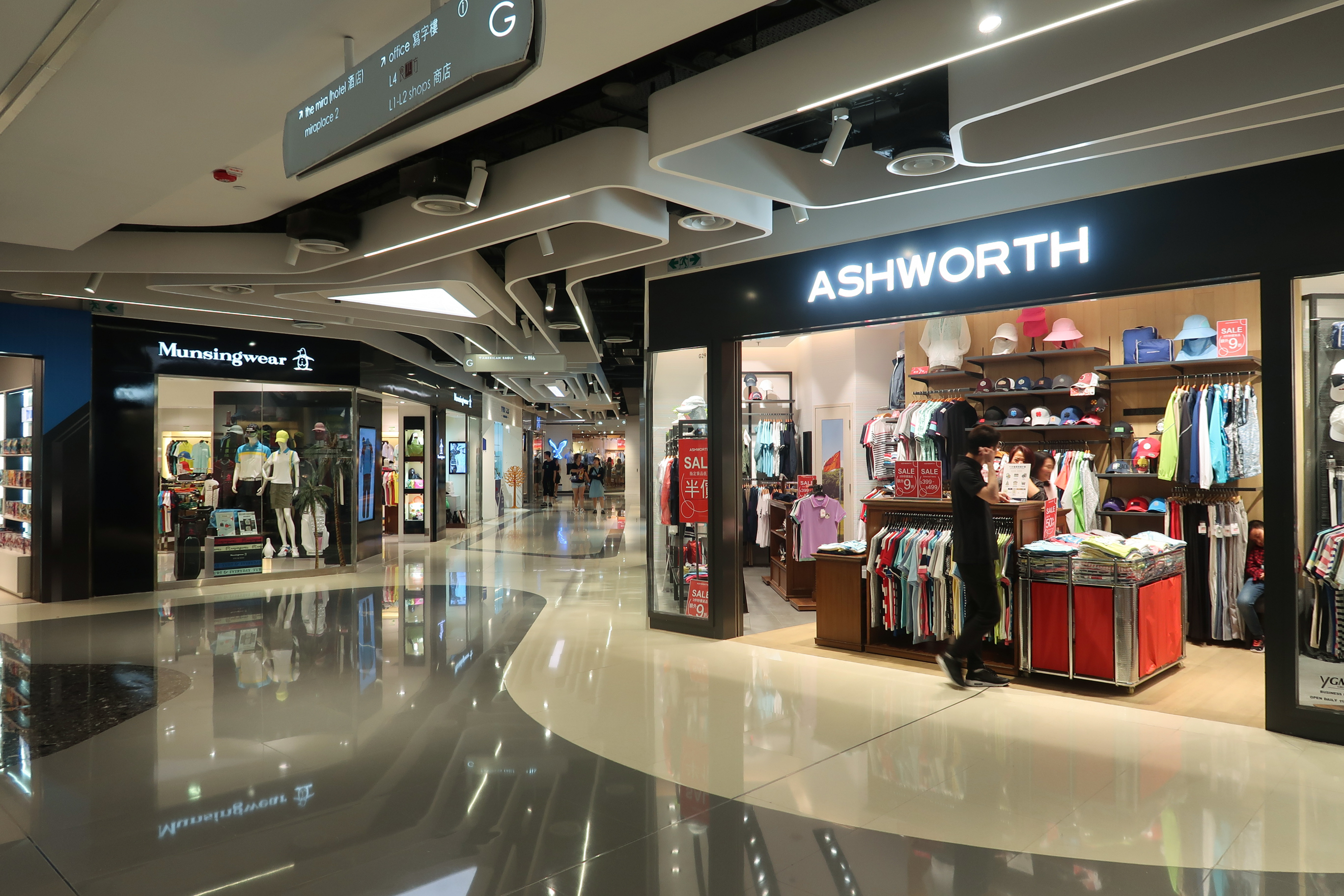 Mira Place 1 GF shops